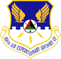 Emblem 838th Air Expeditionary Advisory Group, a group of the 438th Air Expeditionary Wing of the United States Air Force.